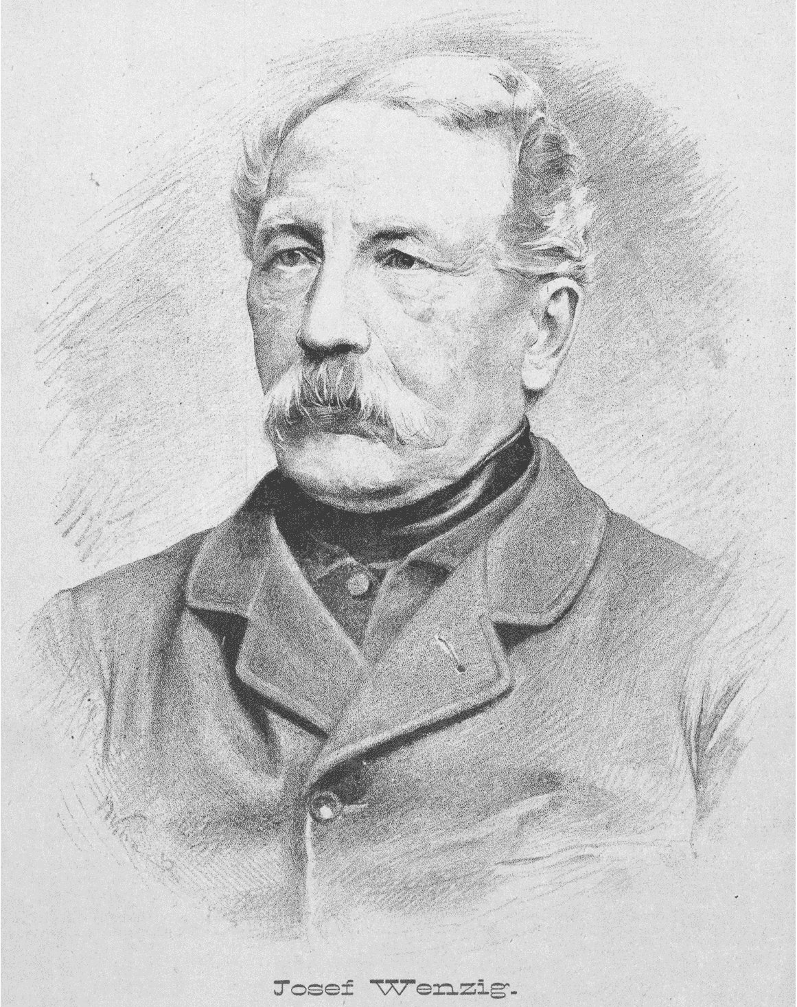 Portrait of Josef Wenzig, Czech educator and writer.